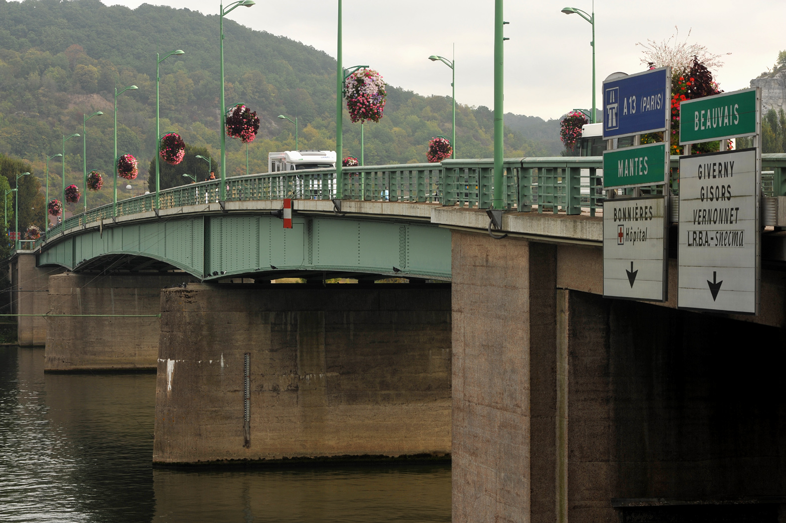 Pont Clemenceau over the Seine river in Vernon; Eure, France.